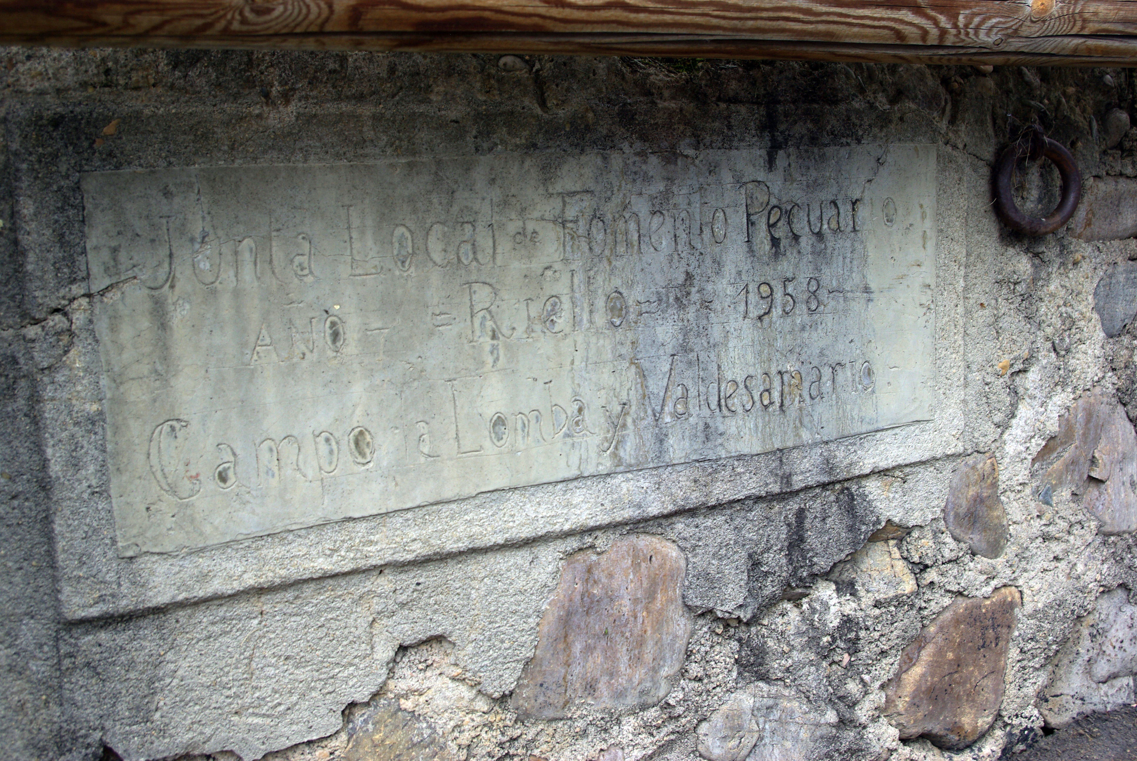 1958's livestock development board in Riello (León, Spain).